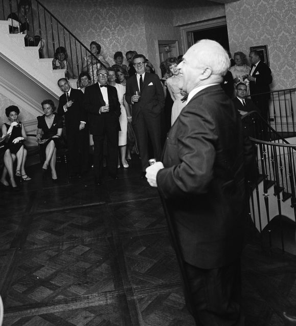 Entertainer, Eddie Jackson, performs during an evening reception at the residence of Arthur B. Krim and Dr. Mathilde Krim in New York City, New York. Also pictured: Eunice Kennedy Shriver; Patricia Kennedy Lawford; Jean Kennedy Smith; Vice President Lyndon B. Johnson; Special Assistant to the President for Congressional Relations, Larry O'Brien; First Lady of New York City, Susan Wagner; White House Secret Service agents, Floyd Boring and Bob Lilley.